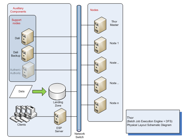 Architectural components and network layout of a Thor Cluster (LN HPCC)